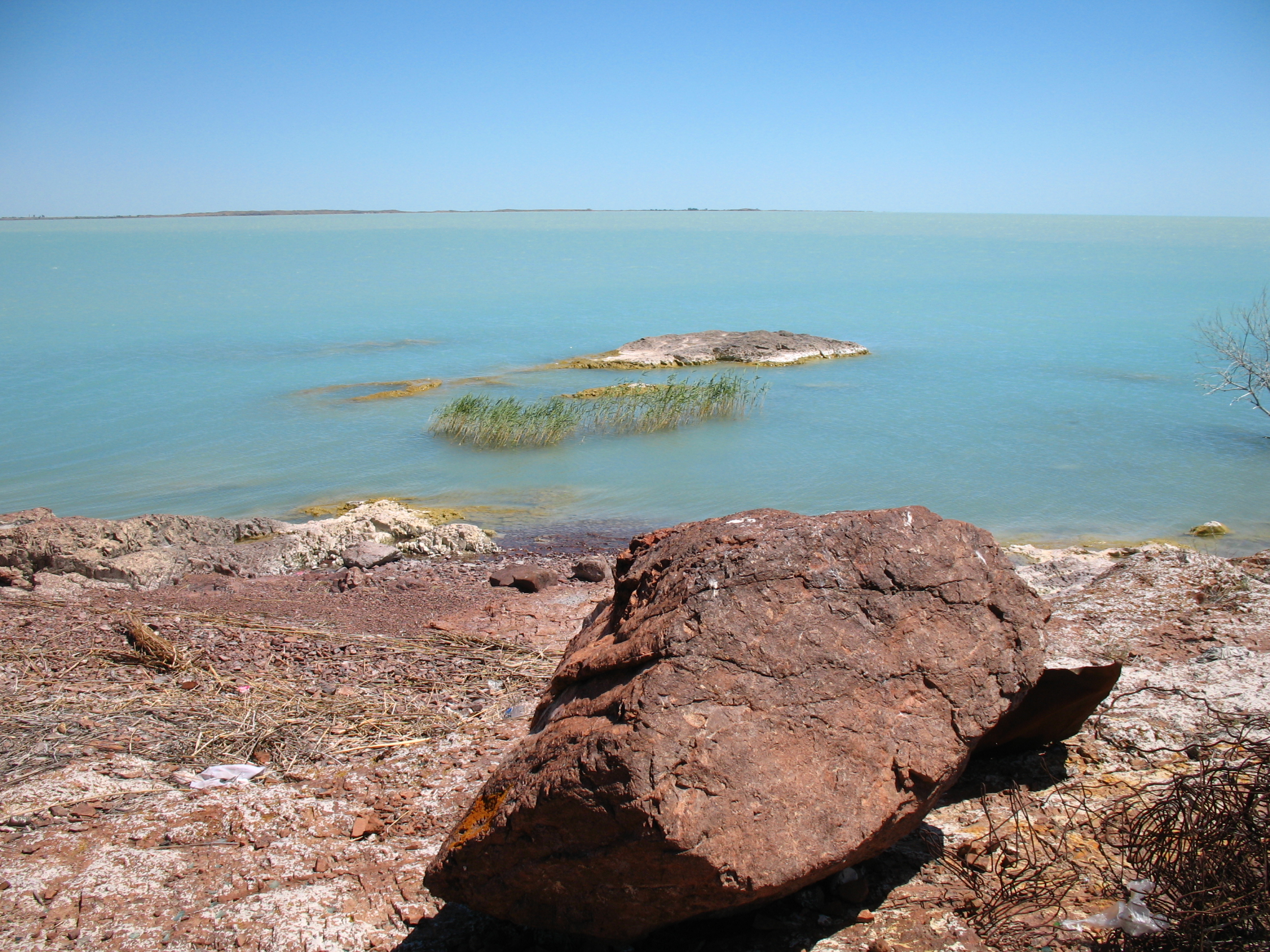 Lake Balkhash near Priozersk city, May 2007